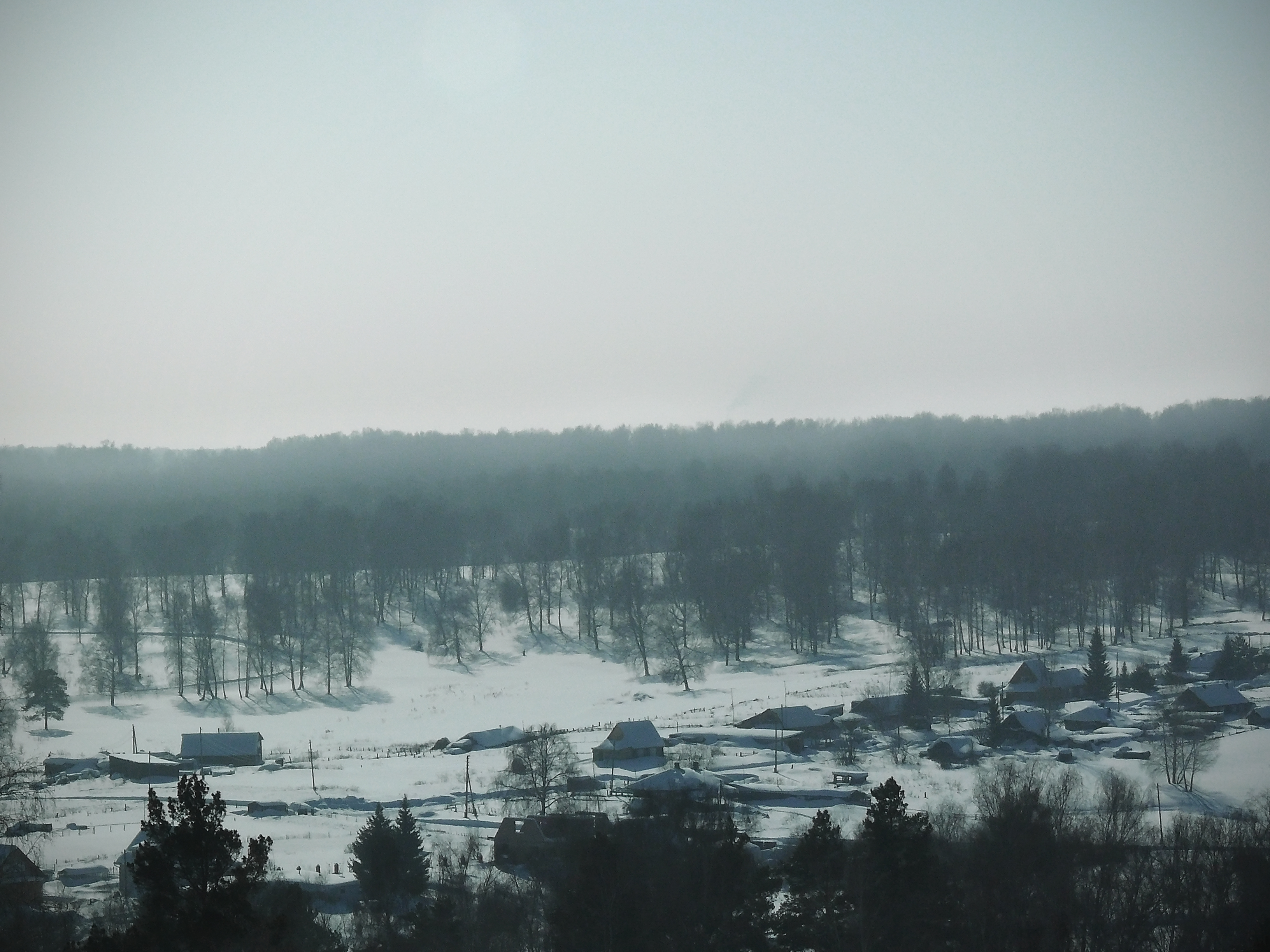 Taiga forest — in Siberia.